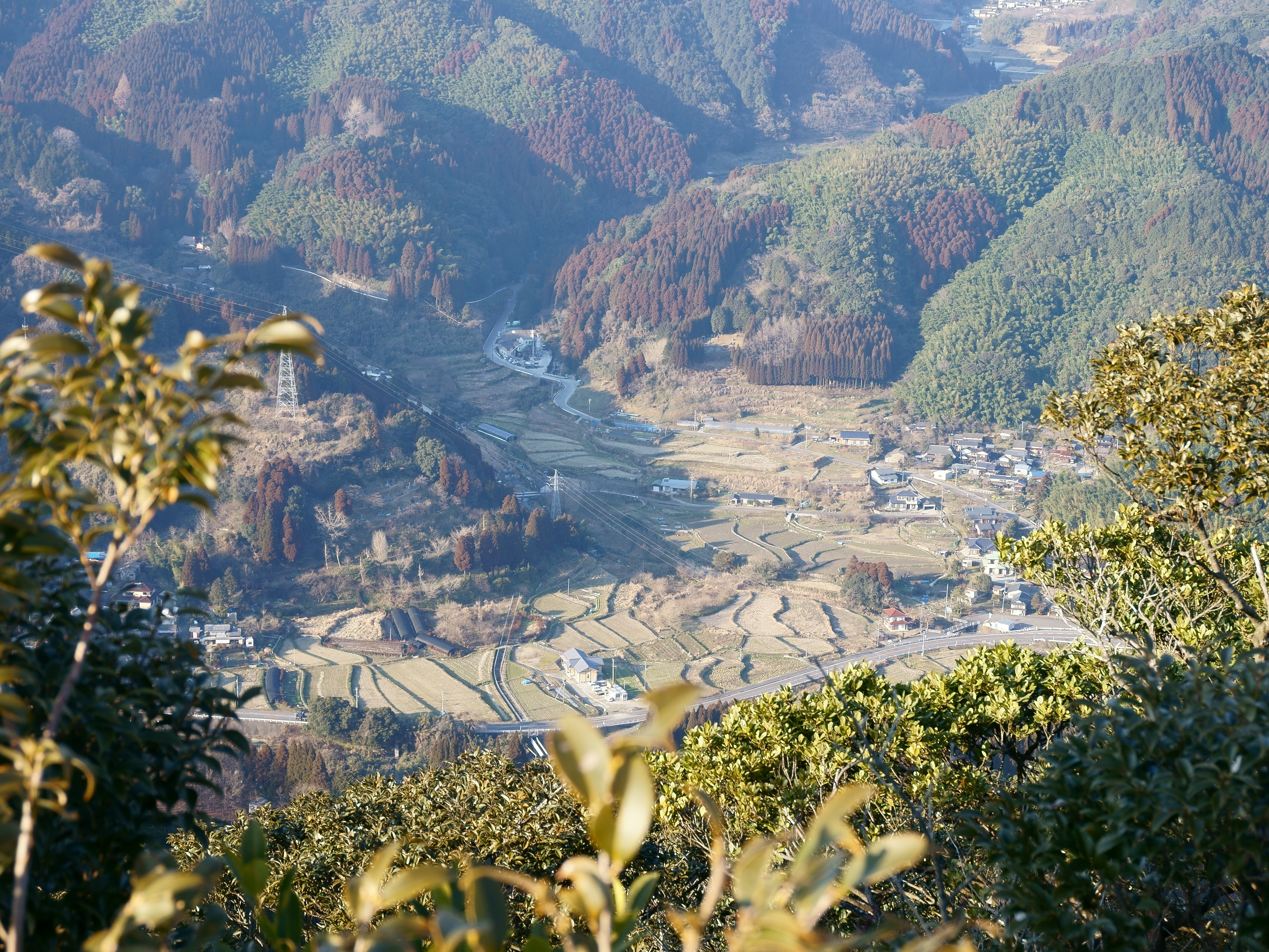 View of Iwaya, Mandokoro, Kuratani, Imayashiki villages (Iwa-Man-Kura-Ima region) in Sefurimachi Hirotaki, Kanzaki city. It taken from southern mountain, Mount Kawarake. The government has been planning built a dam(Jōbaru-gawa Dam) there.